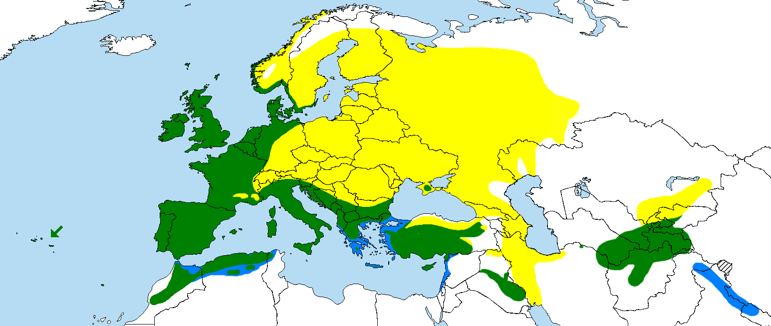 Distribution of Columba palumbus Yellow - Breeding summer visitor Green - Breeding resident Blue - Winter visitor.